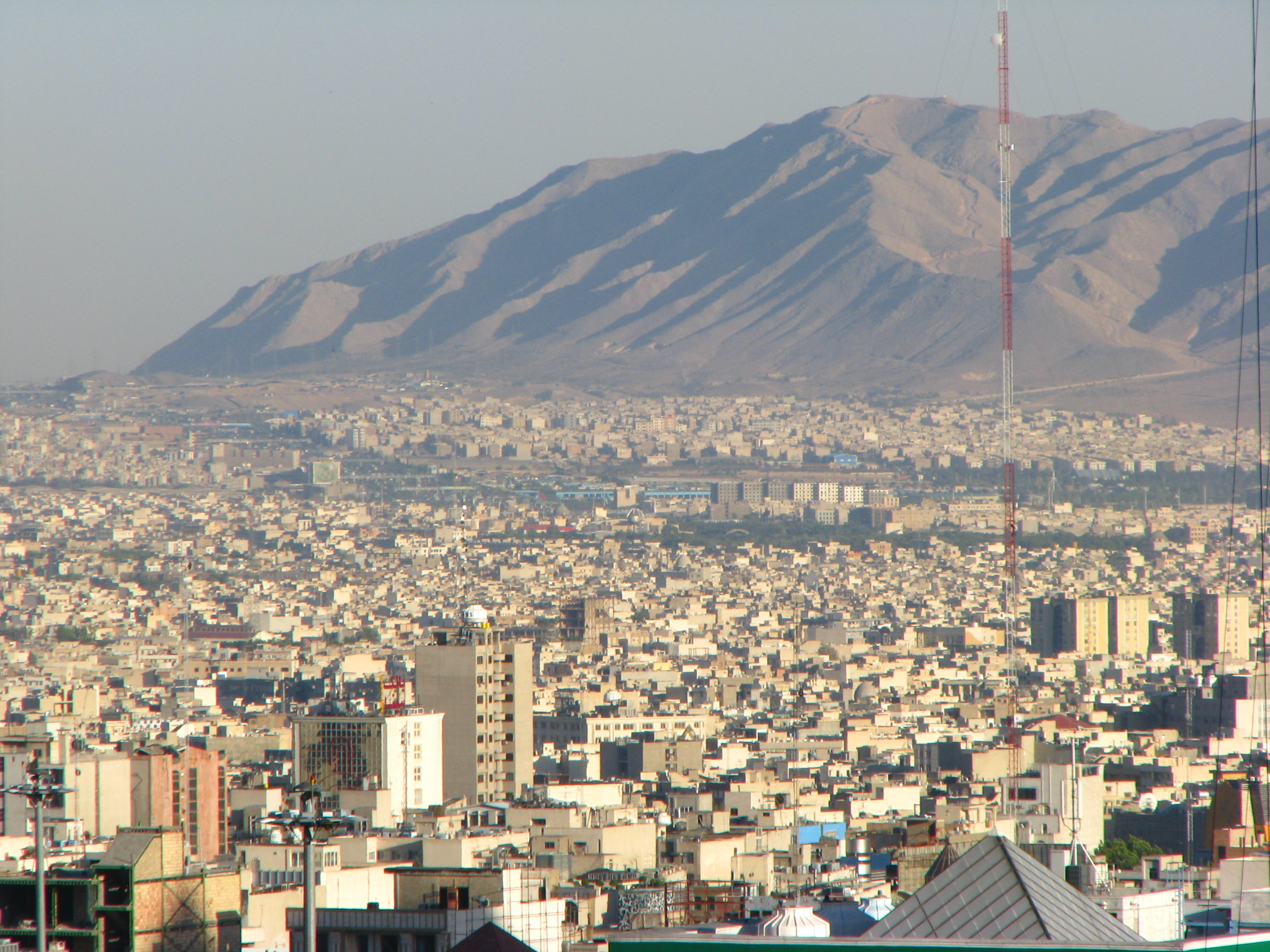 Bright Sunshine in Tehran, 2011 Spring